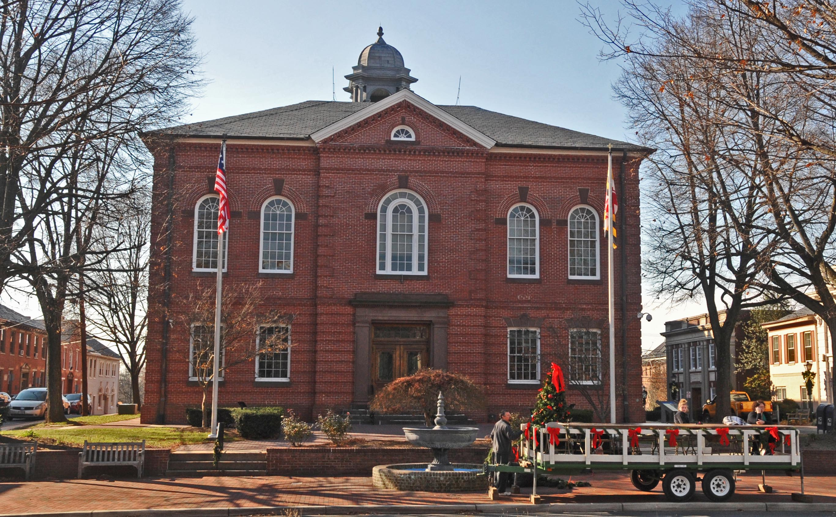 THIS BUILDING IN BRICK ITALIANATE STYLE WAS BUILT IN 1858 TO REPLACE THE ORIGINAL 1791 COURTHOUSE WHICH BURNT DOWN.